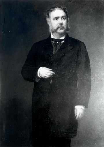 Chester Alan Arthur Artist Eastman Johnson, 29 Jul 1824 - 5 Apr 1906 Sitter Chester Alan Arthur, 5 Oct 1829 - 18 Nov 1886 Date 1887? Type Painting Dimensions 134.5cm x 98.6cm (52 15/16" x 38 13/16"), Sight Credit Line Current Owner: Union League Club of New York Object number NY270002 Data Source Catalog of American Portraits See more items in Catalog of American Portraits